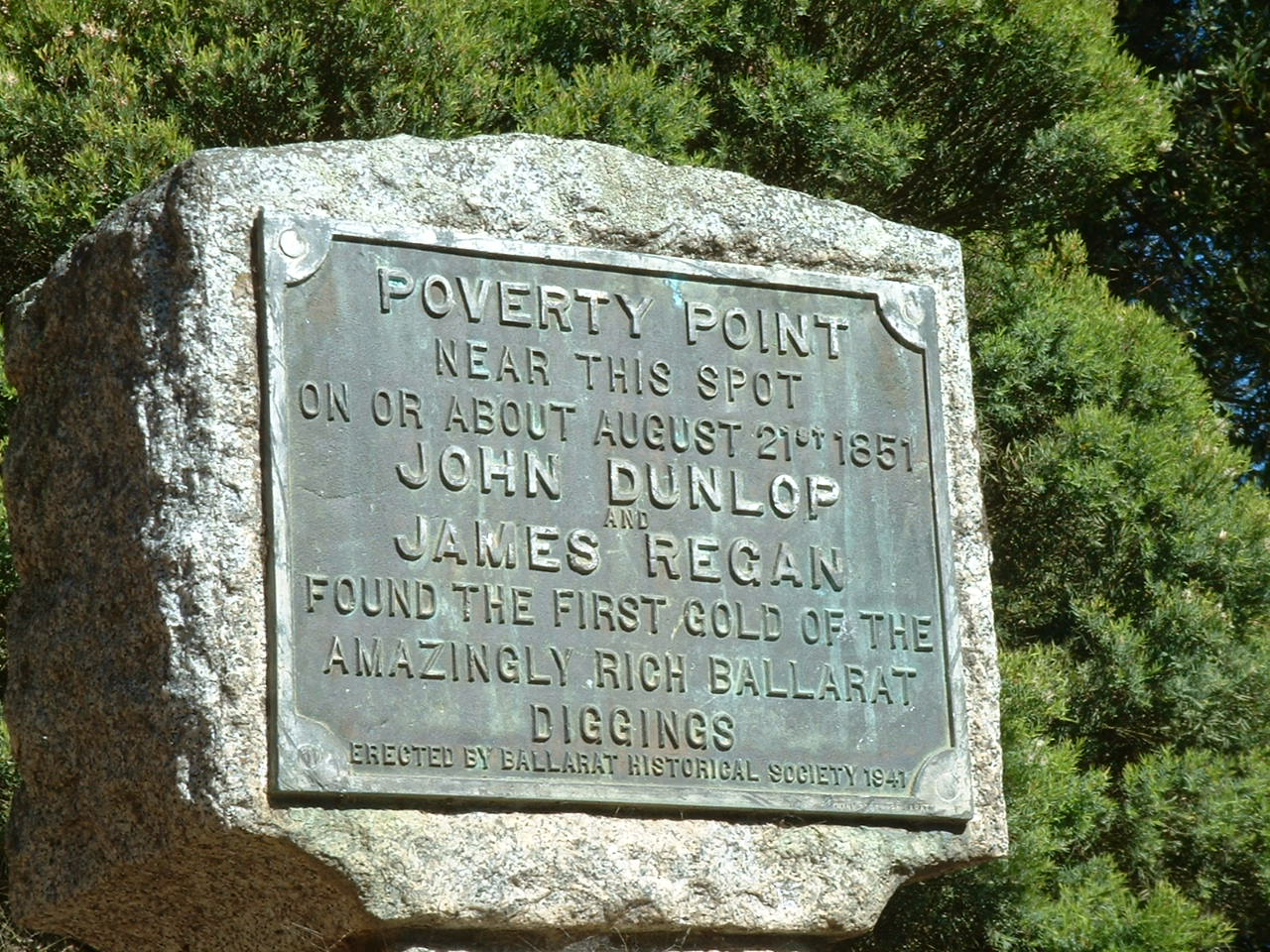 Inscription on the marker at Poverty Point, Ballarat, Victoria, Australia. This marks the site of where gold was first found at Ballarat in 1851.